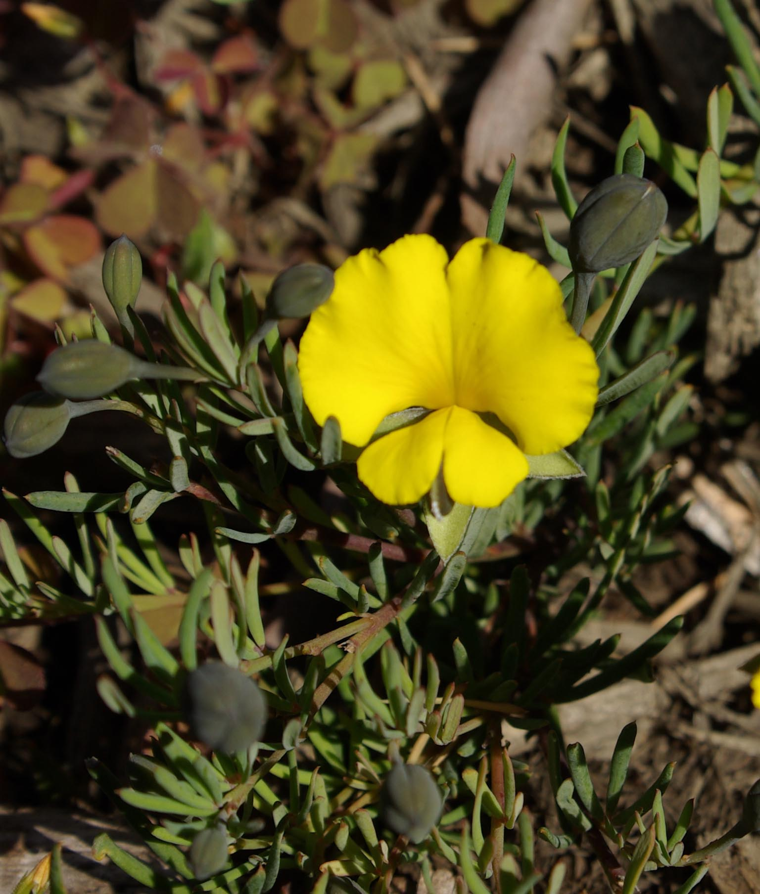 Common wedge pea in Royal Tasmanian Botanical gardens, Hobart